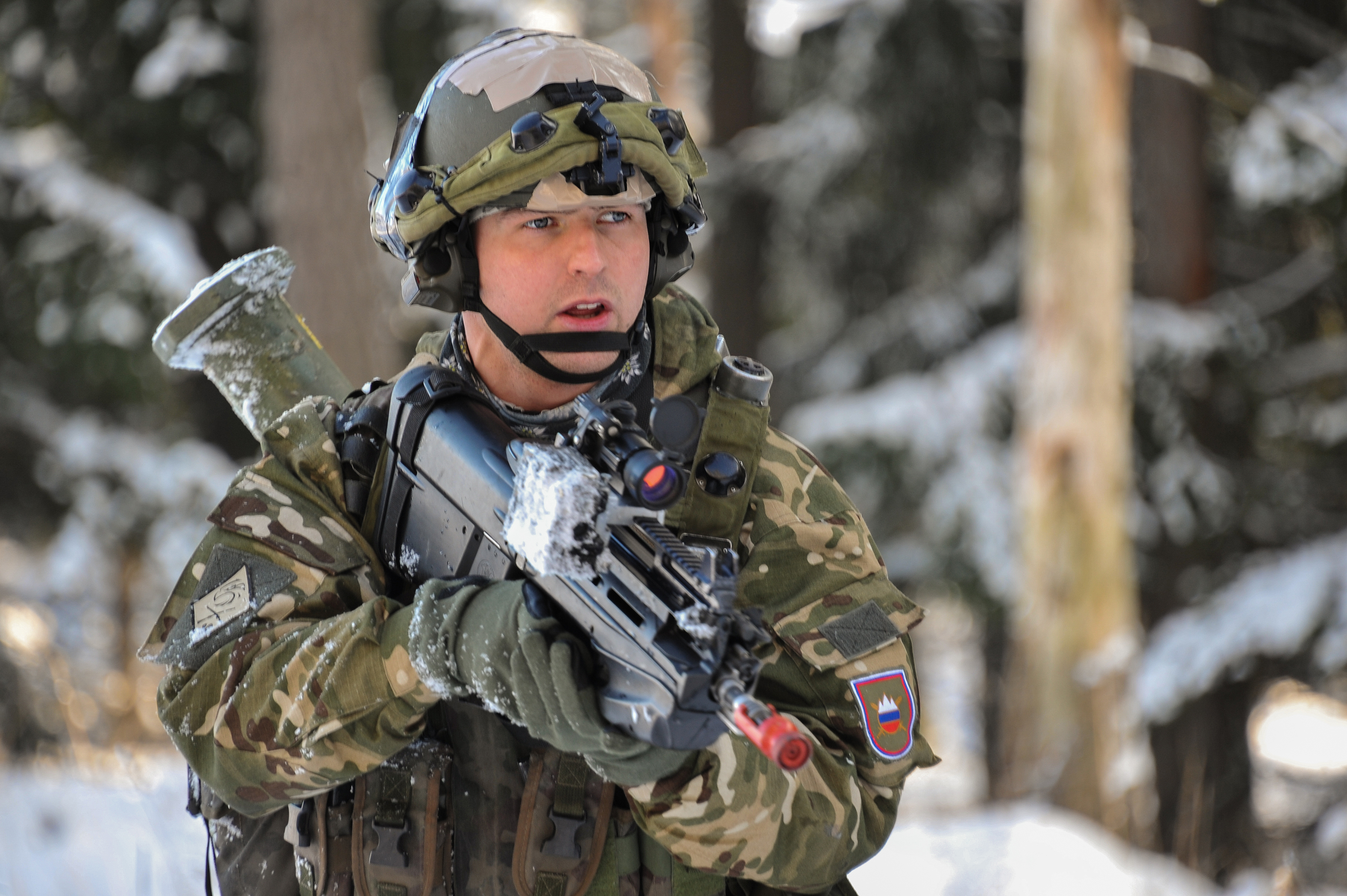 A Slovenian soldier of 3rd Company, 10th Regiment reacts to contact during a situational training exercise lane at Exercise Allied Spirit IV at the 7th Army Joint Multinational Training Command's Hohenfels Training Area, Germany, Jan. 21, 2016. Exercise Allied Spirit includes more than 2,200 participants from six NATO nations, and exercises tactical interoperability and tests secure communications within Alliance members and partner nations. (U.S. Army photo by Visual Information Specialist Markus Rauchenberger/released)